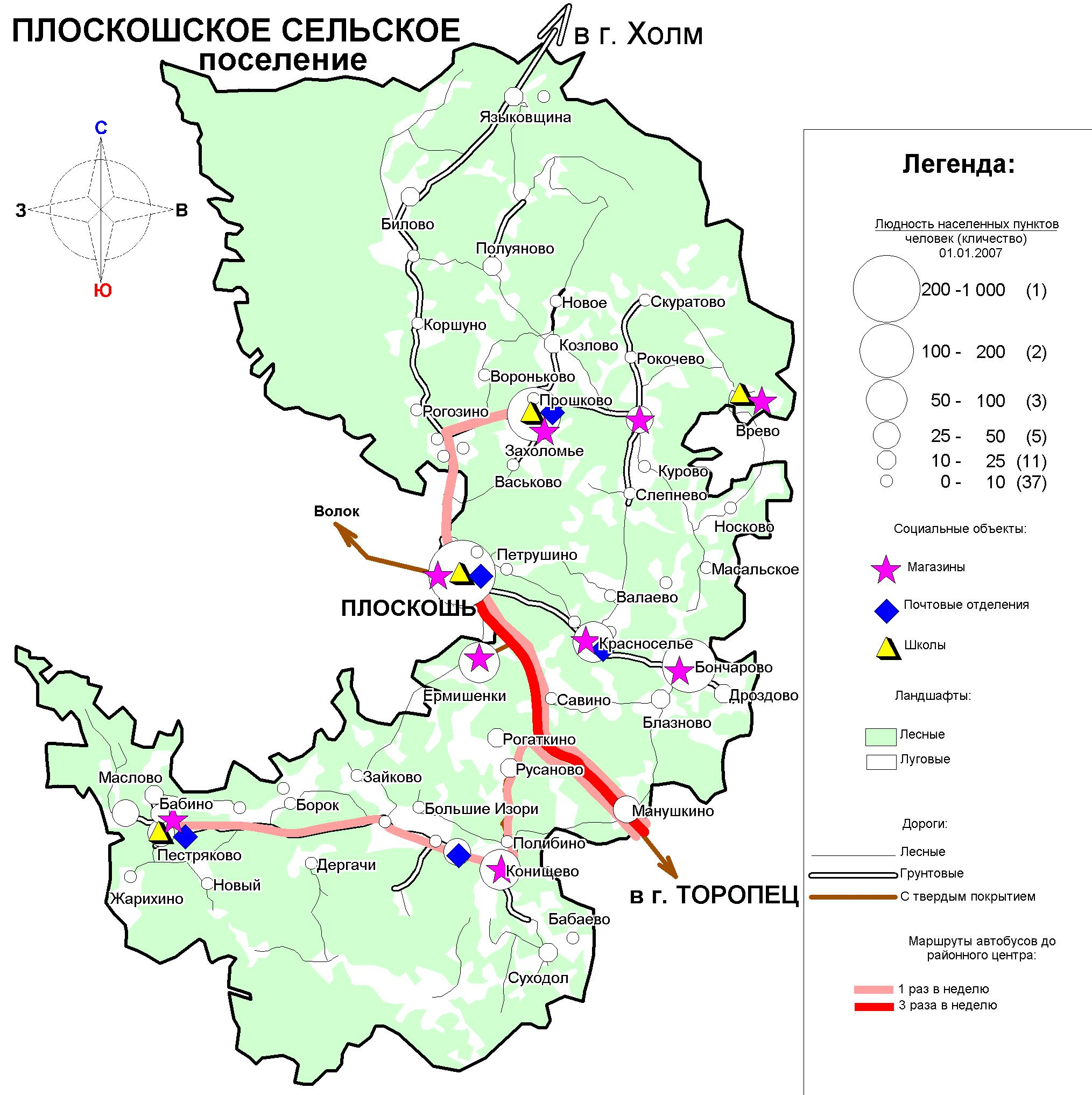 the map